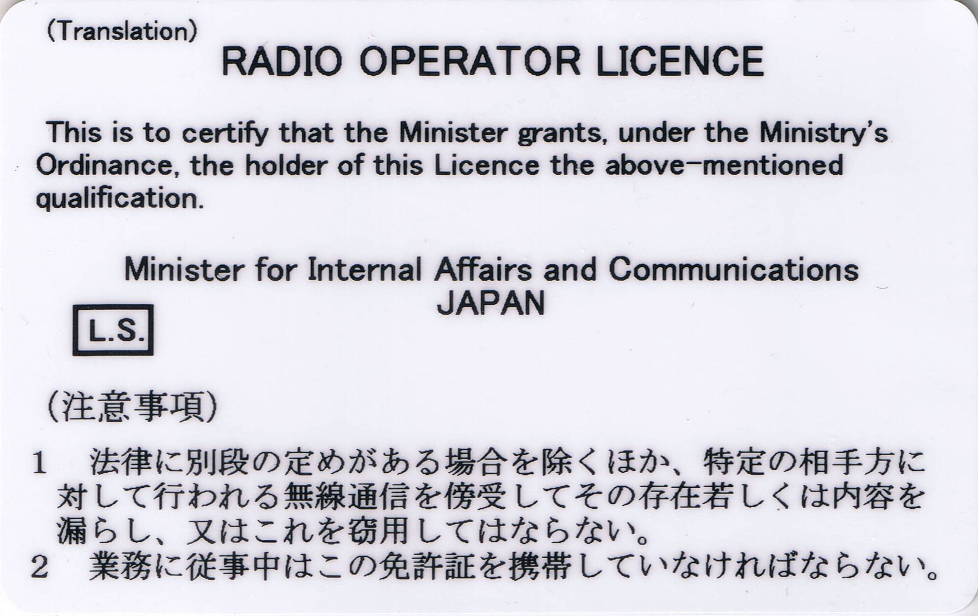 The back of the aviation radio communication officer telegraphist's license that has been issued in April 2010 or later. (Each class amateur radio engineer Common)